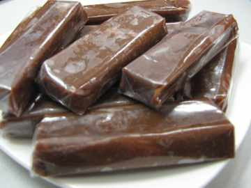 Milk-based dodol from Pangalengan, Bandung